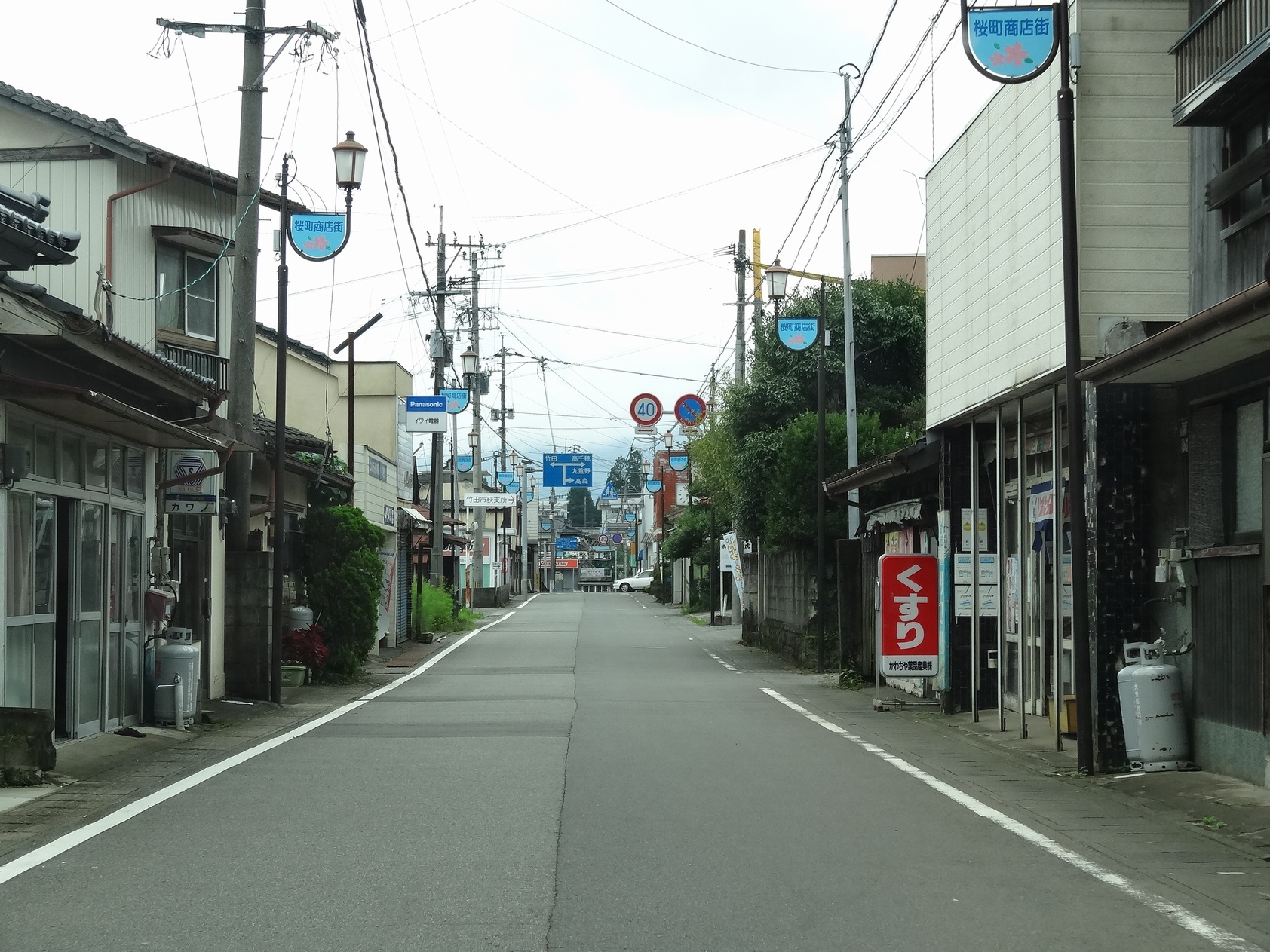 Sakuramachi-Street in Ogi-machi, Taketa City, Oita, Japan)